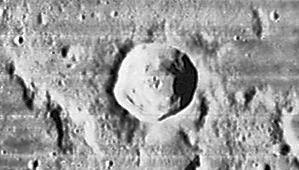 Lalande lunar crater image LO-iv-113-h3